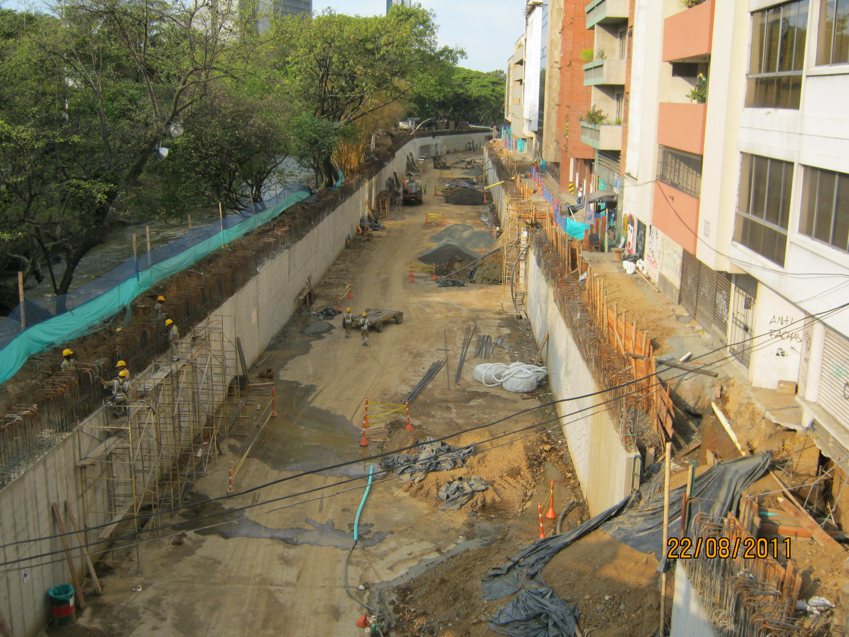 Photo of the construction of the Colombia Avenue submergence